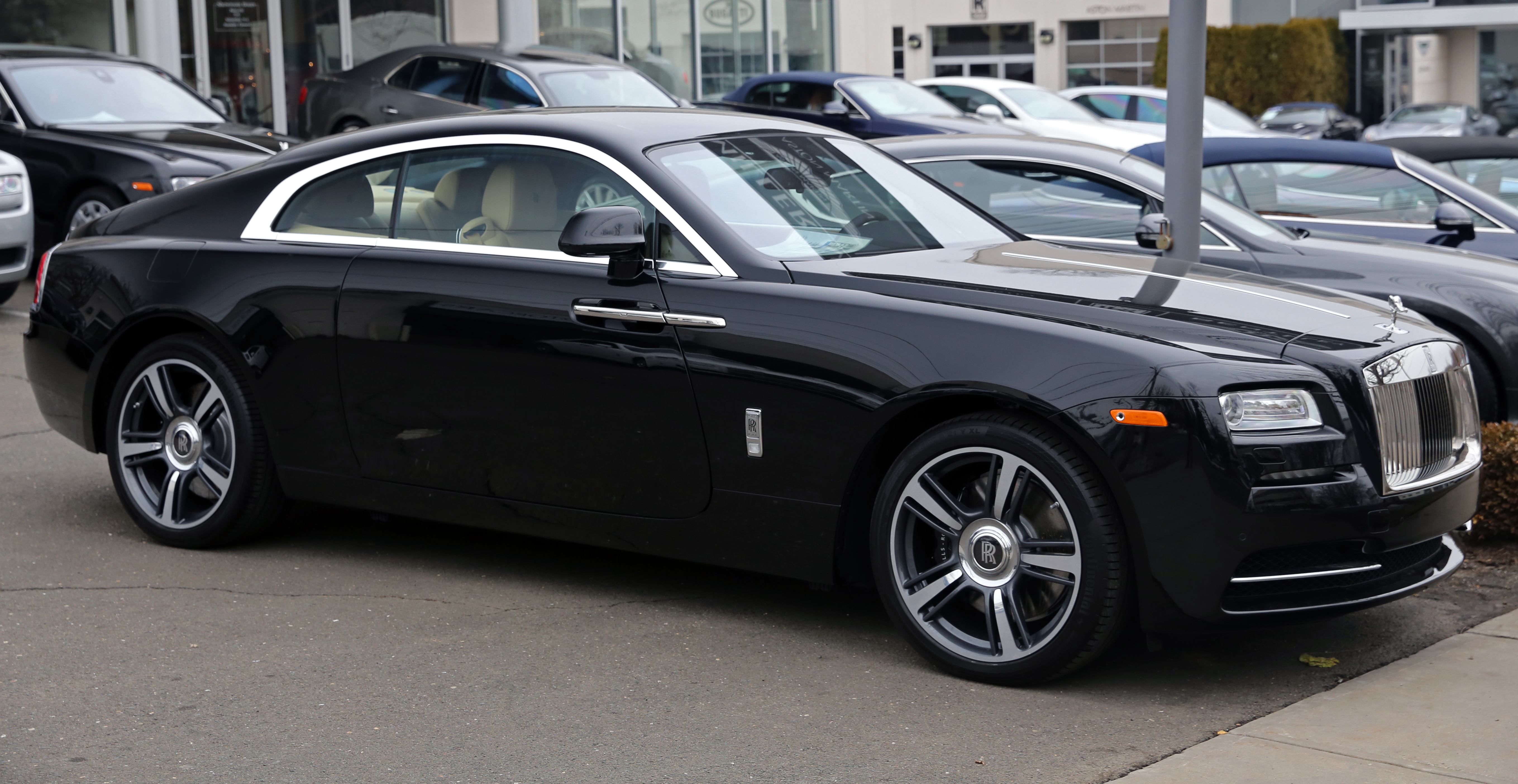 A 2014 Rolls-Royce Wraith in Diamond Black with Moccasin interior, at Miller Motorcars in Greenwich, CT.